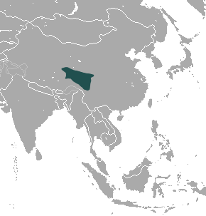 Glover's Pika (Ochotona gloveri) range